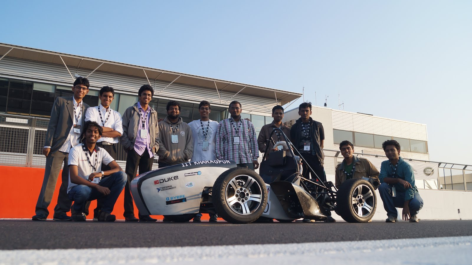 car image